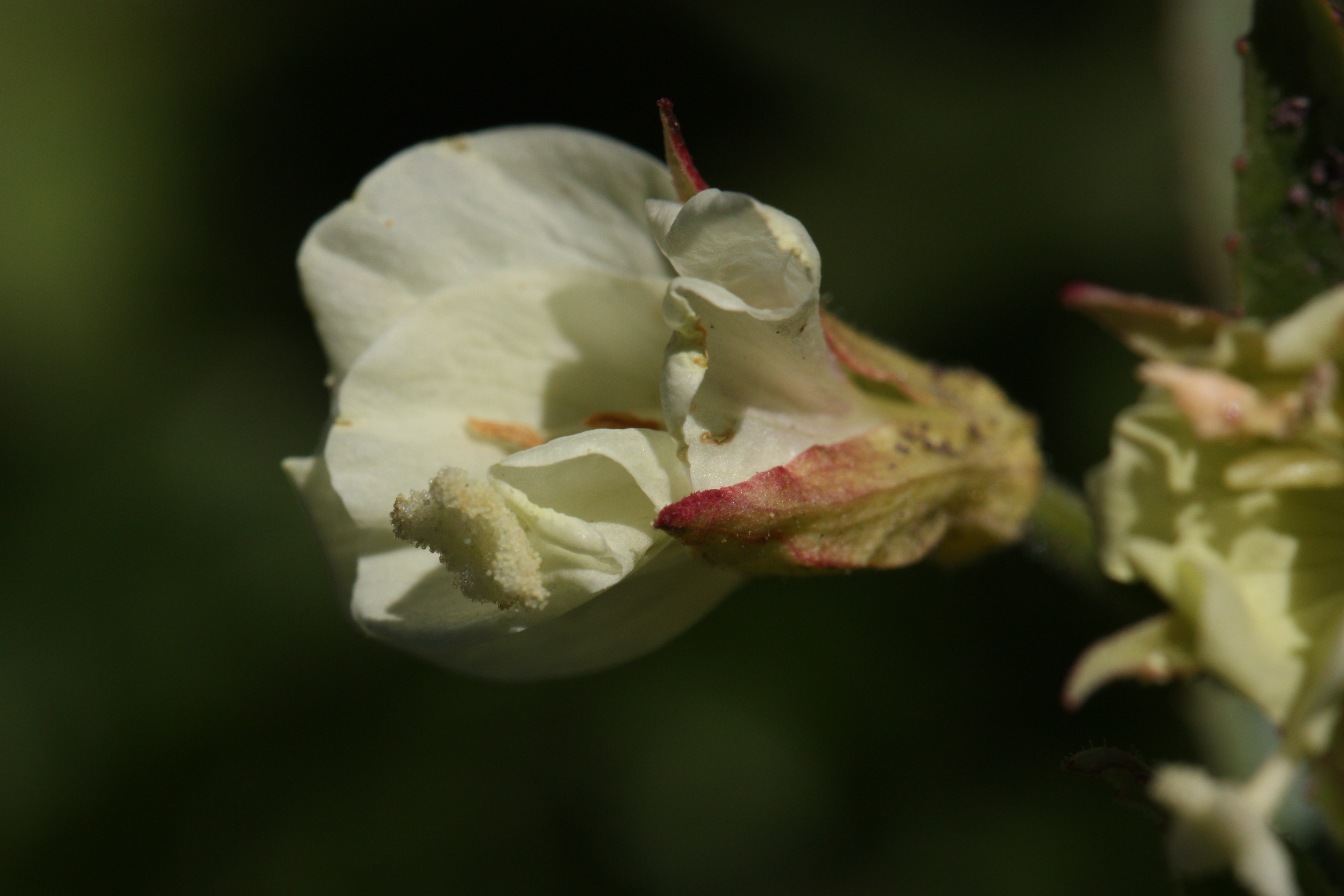 Yellow Willowherb